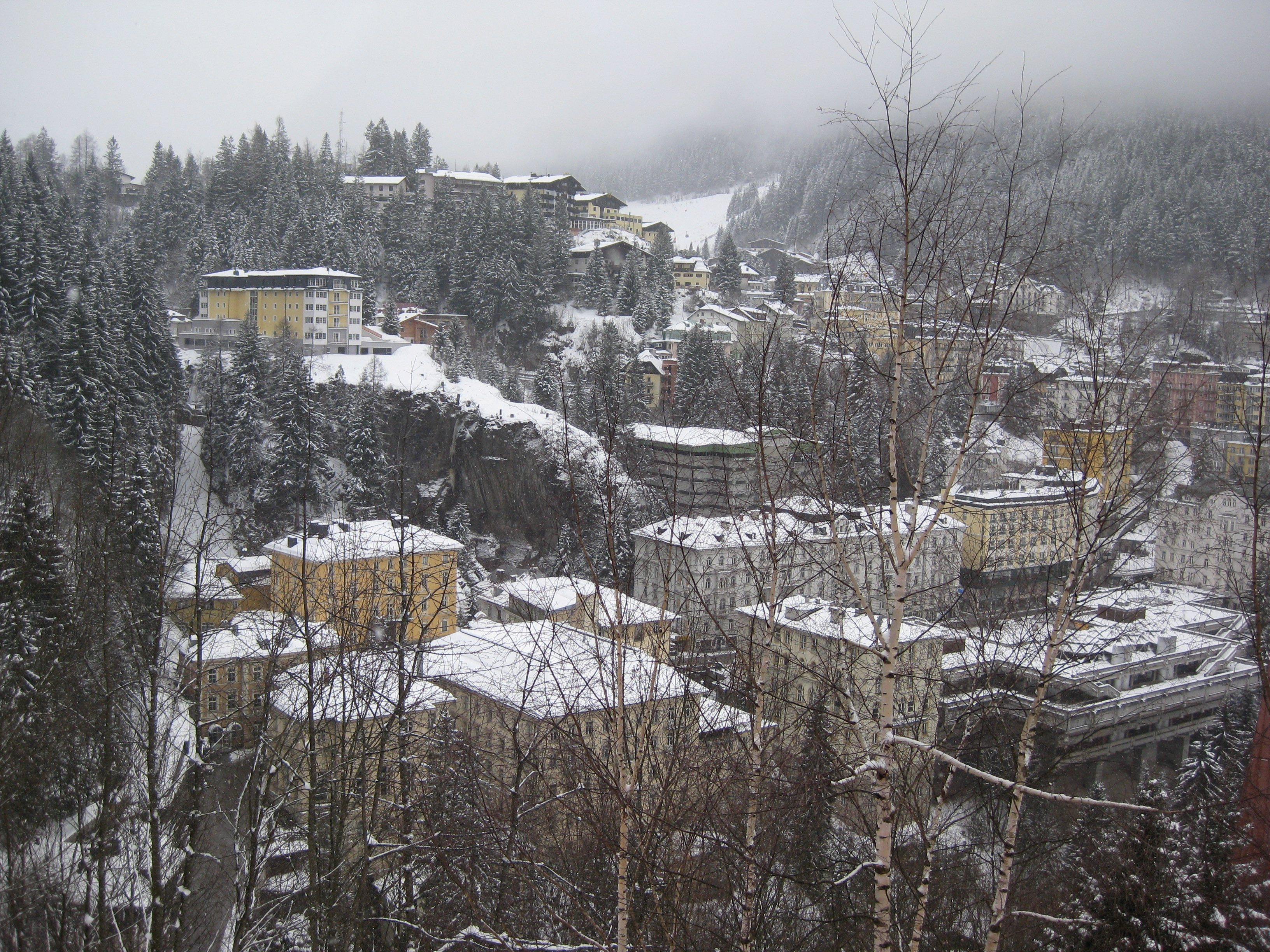 Bad Gastein in the winter